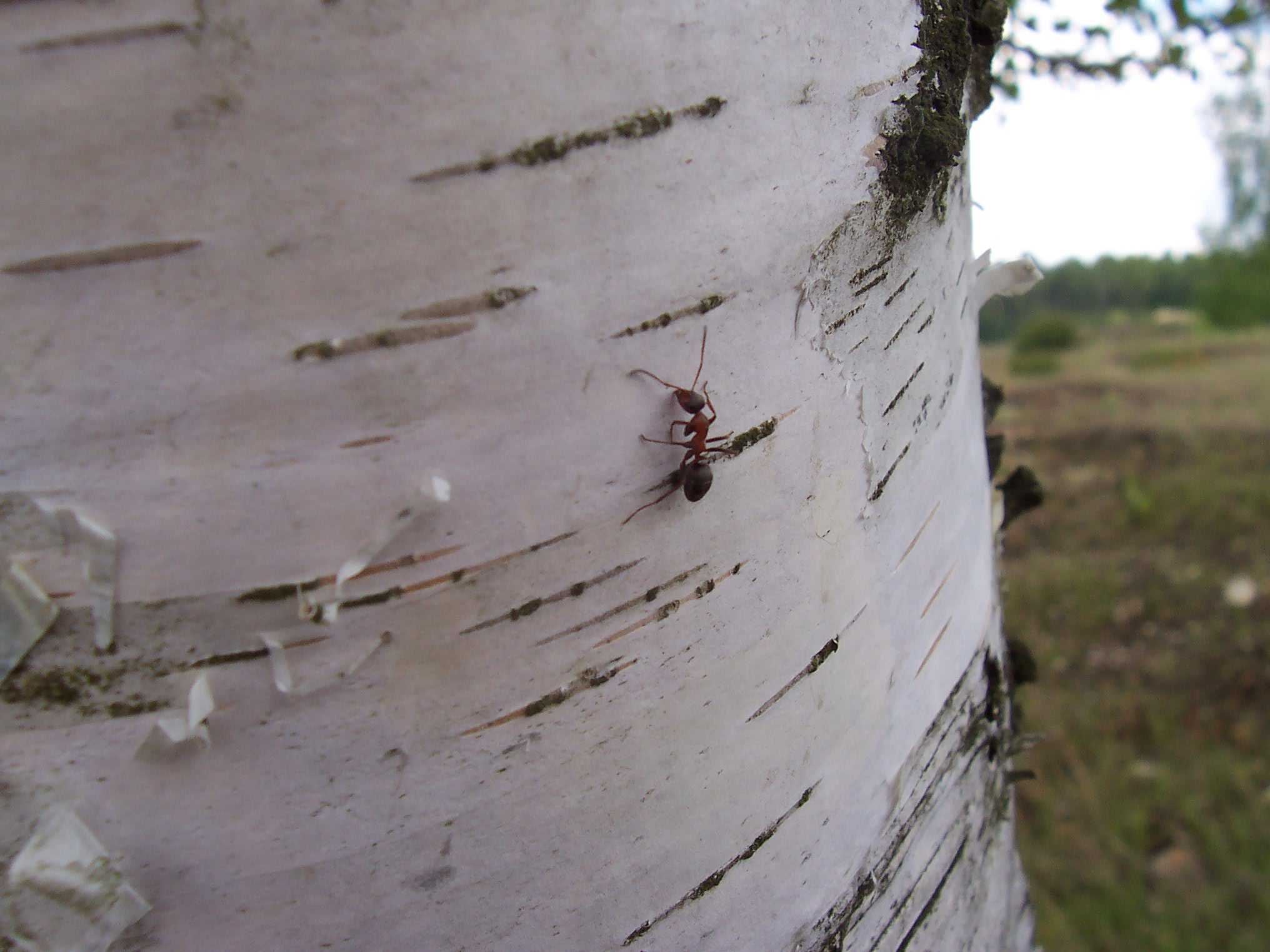 birch bole with an ant on it